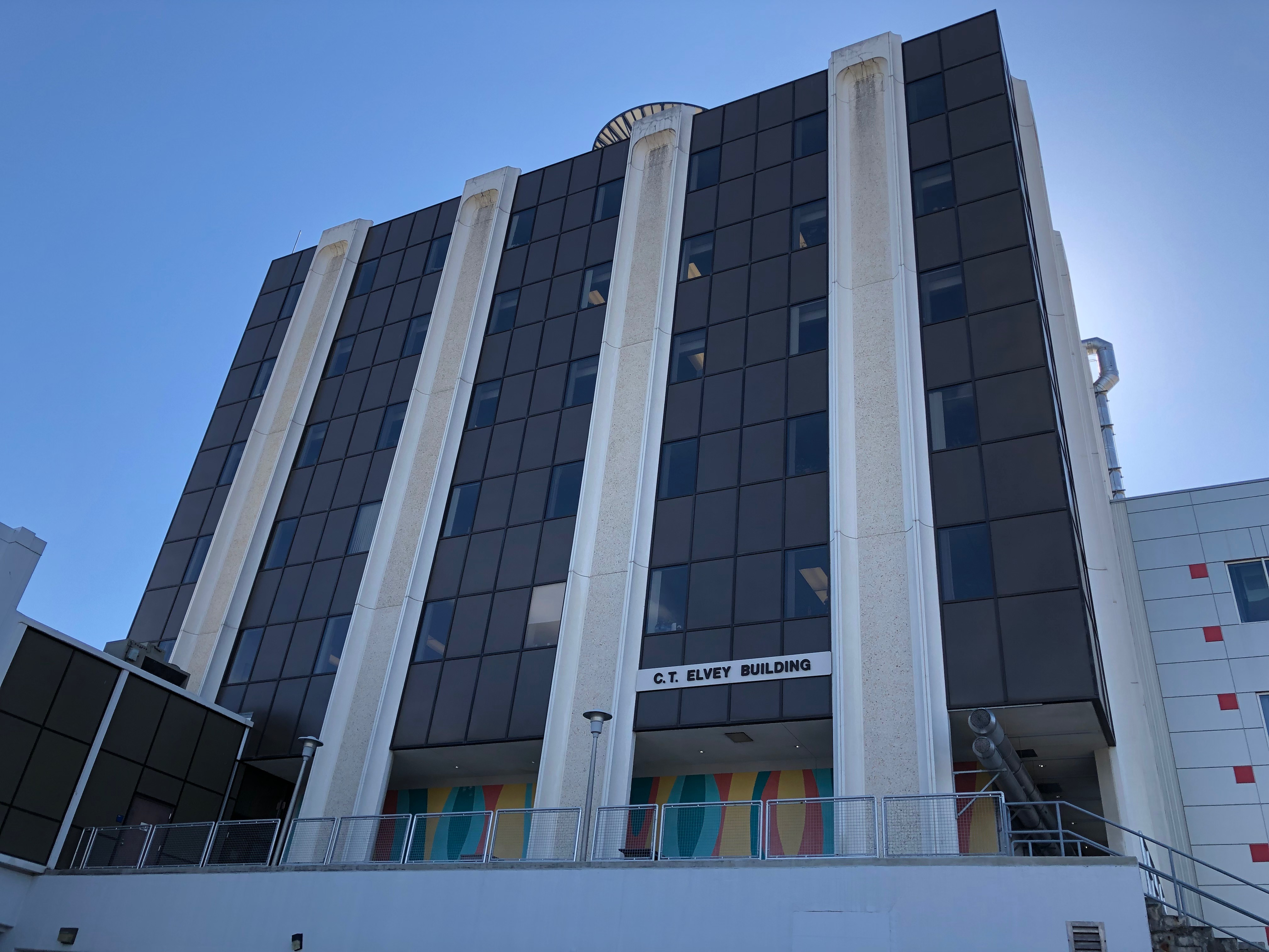 Noted here